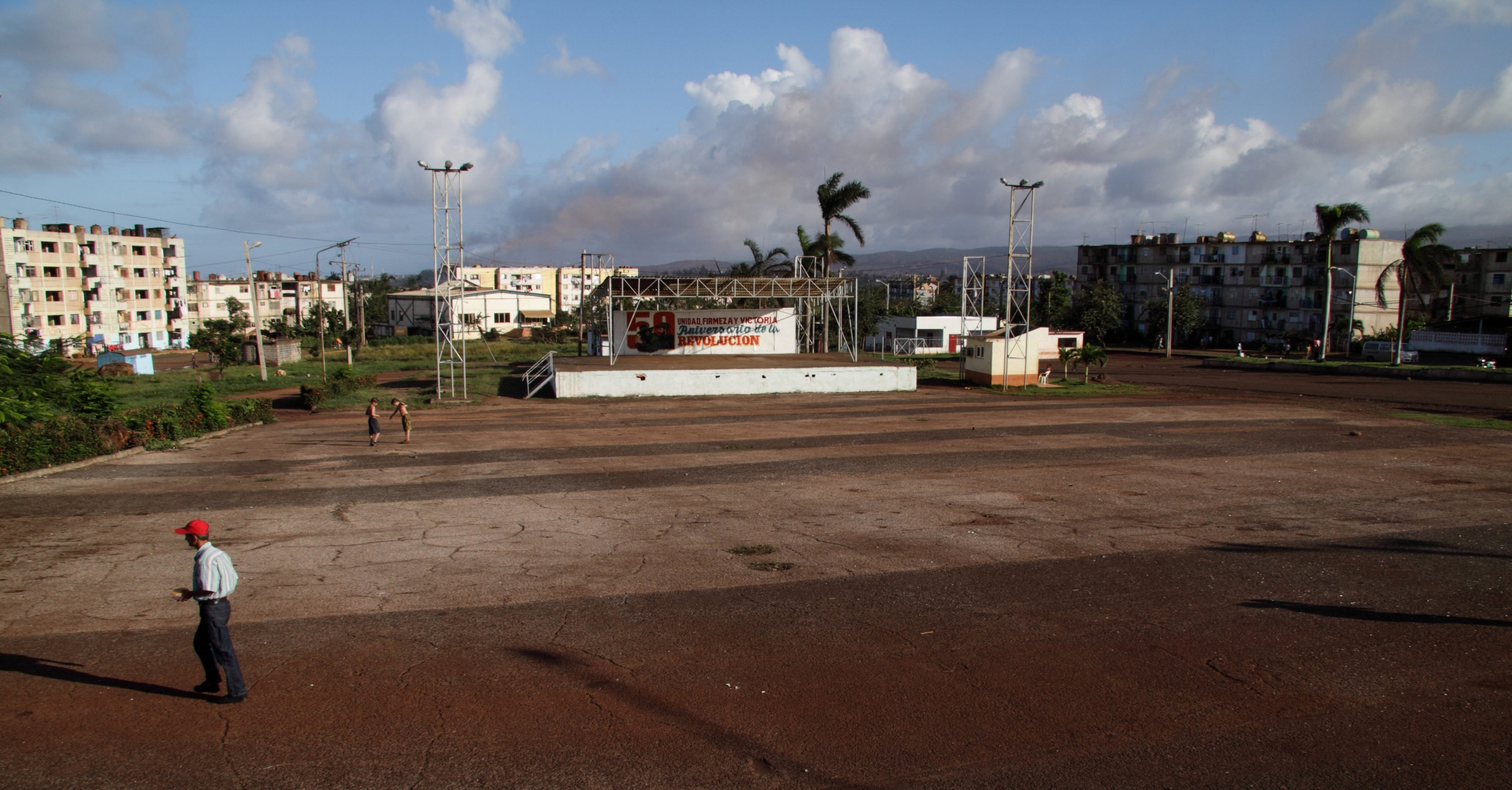 Moa, Holguín province, Cuba Аҧсшәа: Moa, provincia Holguín , Cuba